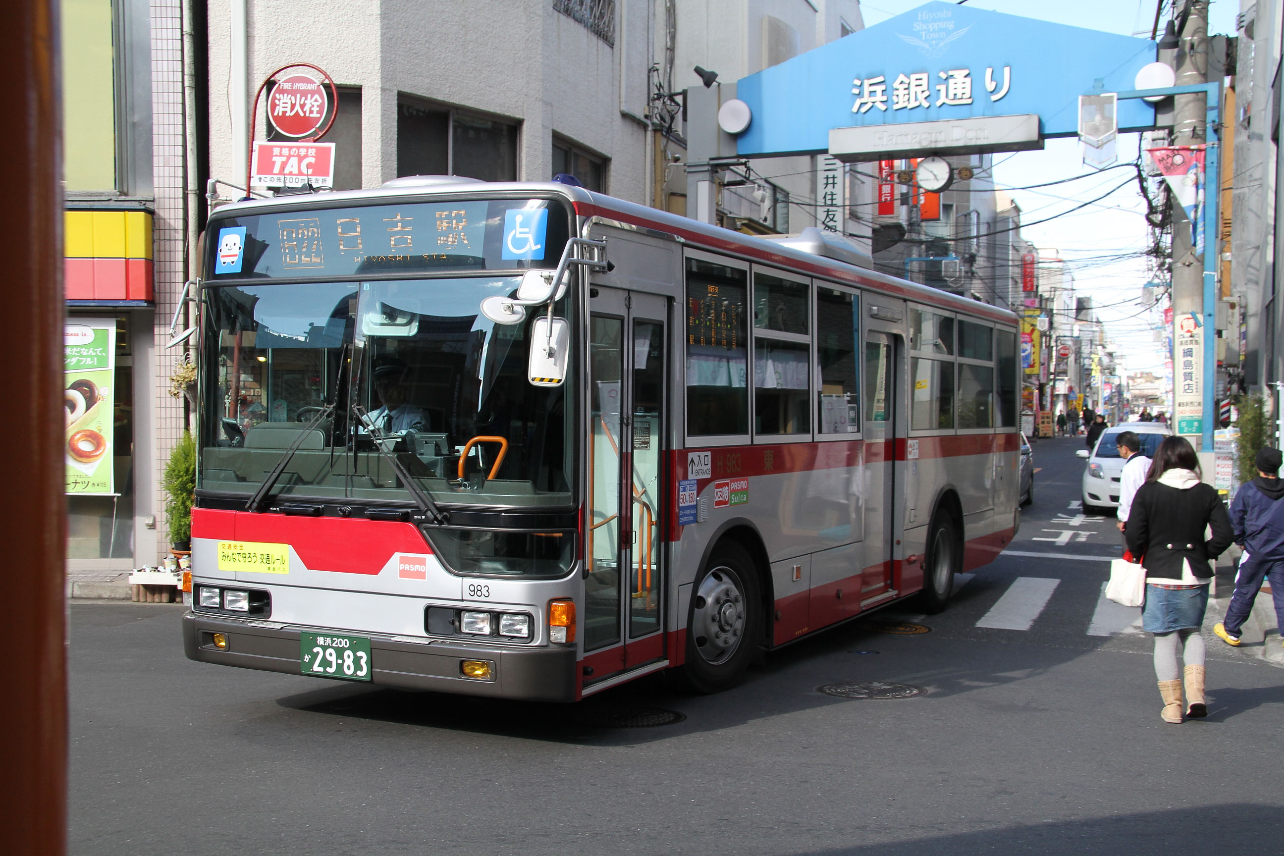 Tokyu Bus car (Hiyoshi Station - Sanvarie Hiyoshi Line "Hi 22") 東急バスの車両（日吉駅 - サンヴァリエ日吉線「日22」）